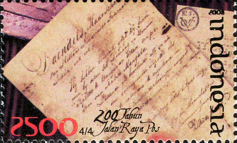 Stamps of Indonesia